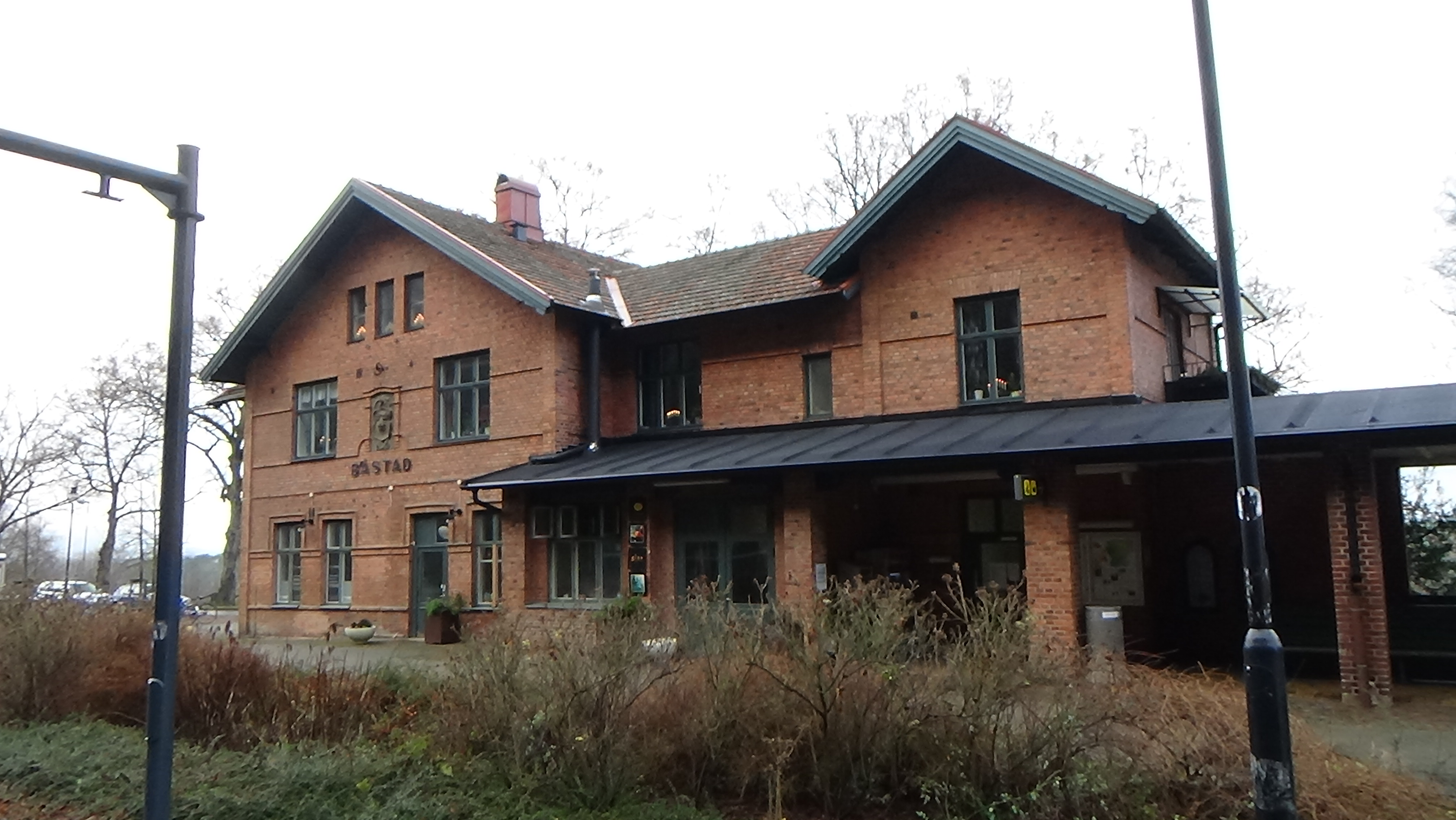 Photo on the station building at the Båstads old railwaystation.